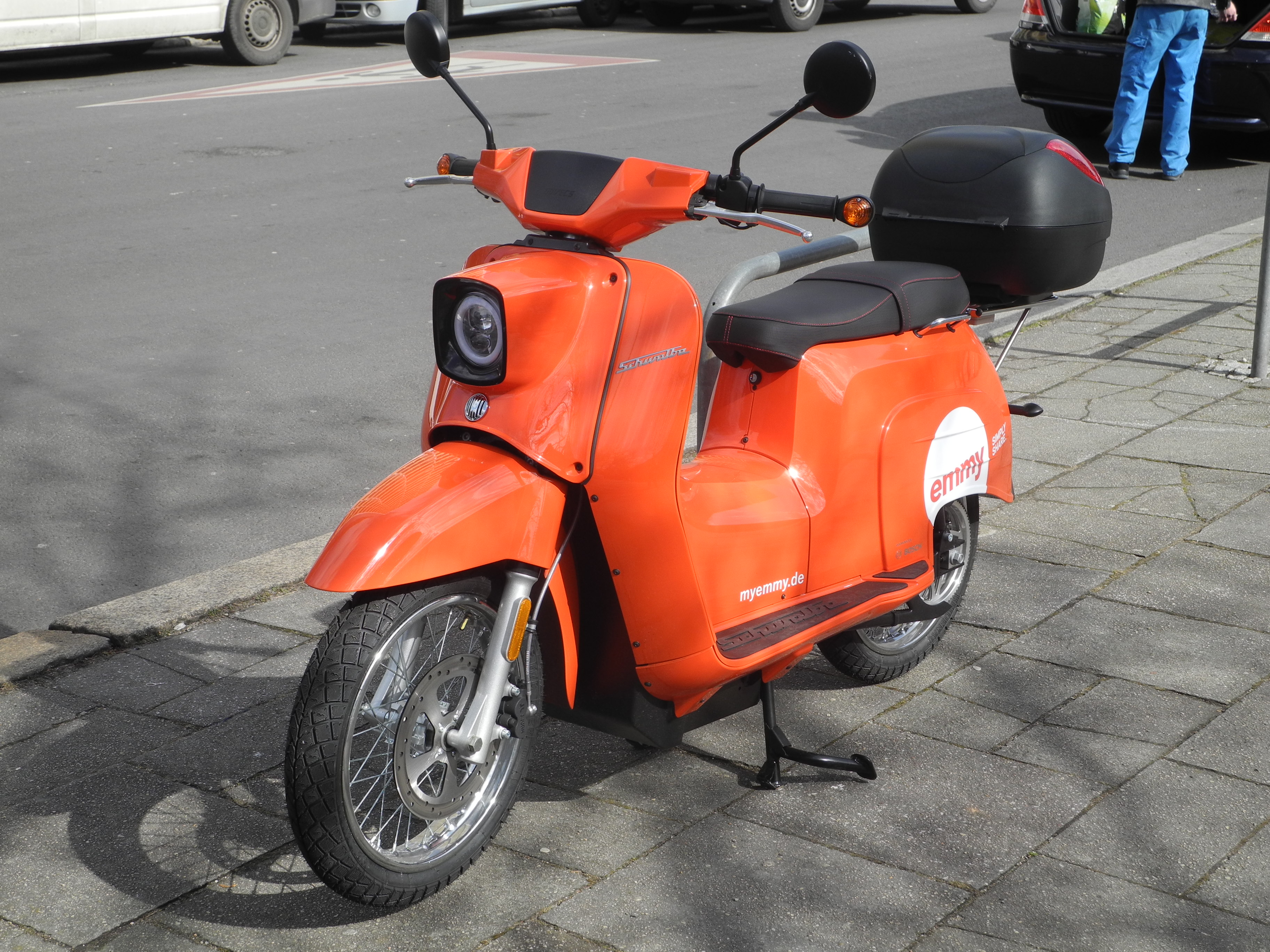 E-Schwalbe E-scooter sharing in Berlin, 2018